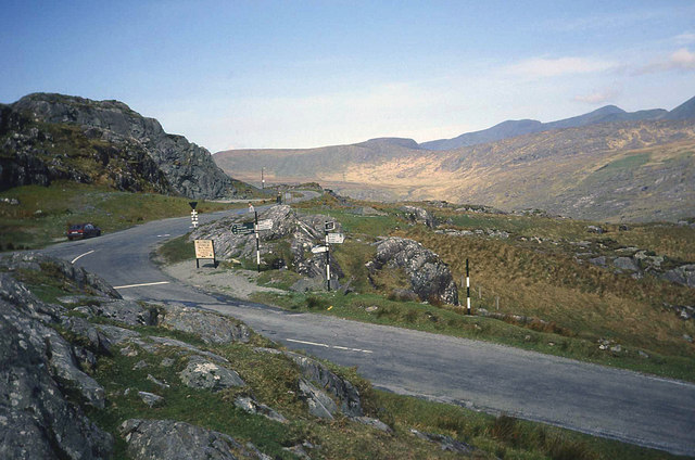 Road junction at Molls Gap. Looking north-west along the road to Sneem with Macgillycuddy's Reeks on the right. The road leading off to the right is for Killarney and the left turn is for Kenmare. There are a few places to park here to take in the views. Looks like the signs have been changed since this 1992 shot (see 495243), probably to accommodate distances shown in kilometres now that Eire is fully metric. I seem to remember in 1992 that there was a hybrid situation with some road signs in miles and others in kilometres, often without the units shown - very confusing!